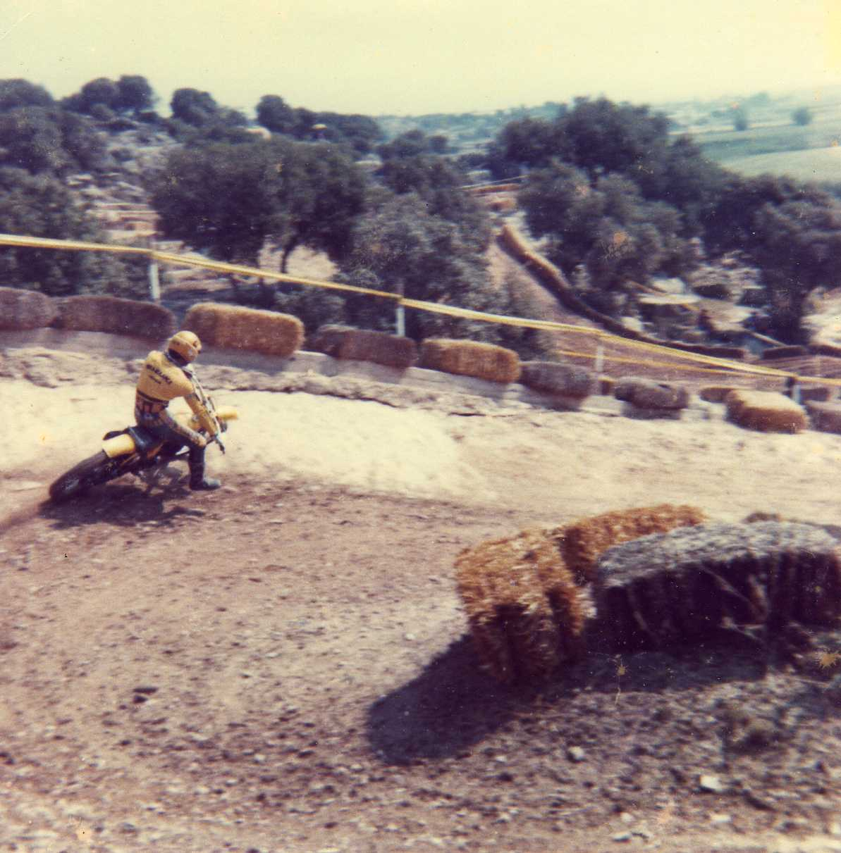 Akira Watanabe practicing with his Suzuki at Circuit del Cluet, Montgai (Catalonia), during the 1978 spanish MX GP 125cc.